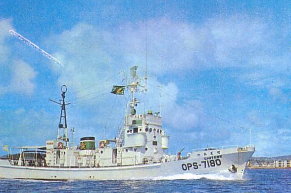 Ryukyu Police Ship Chitose